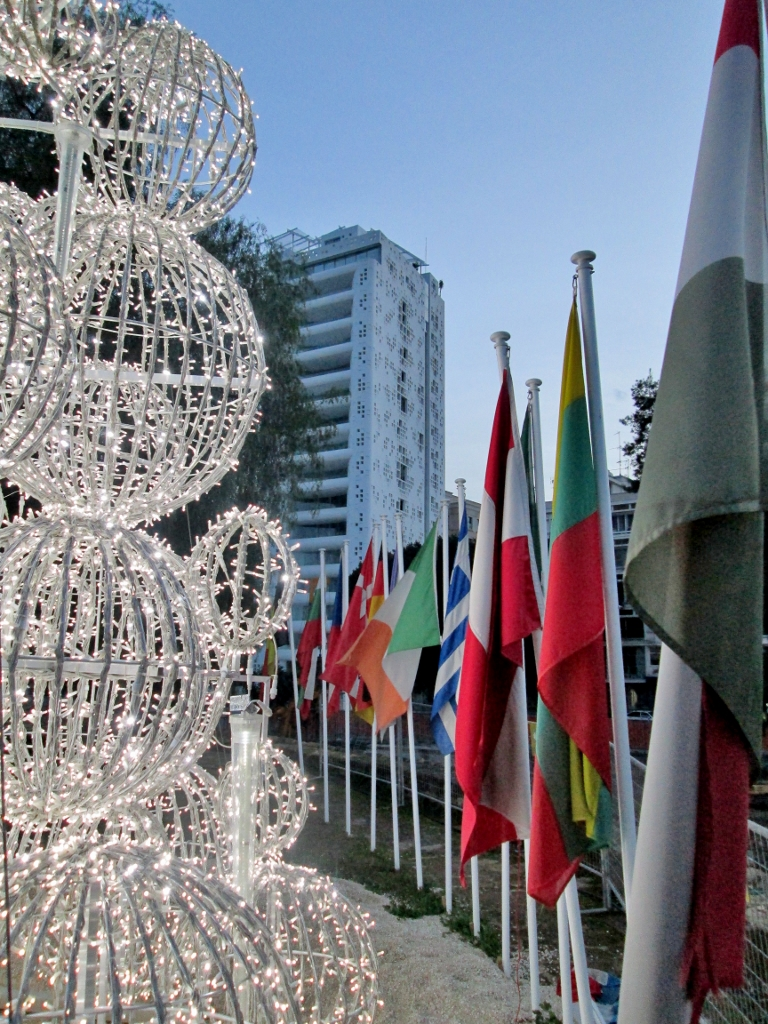 Nicosia City Hall Square in Christmas Nicosia Republic of Cyprus with EU flags